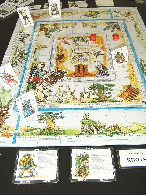 Spielplan des Brett-Rollenspiels Talisman, german version. Talisman is a mixture between Role-playing and board game.